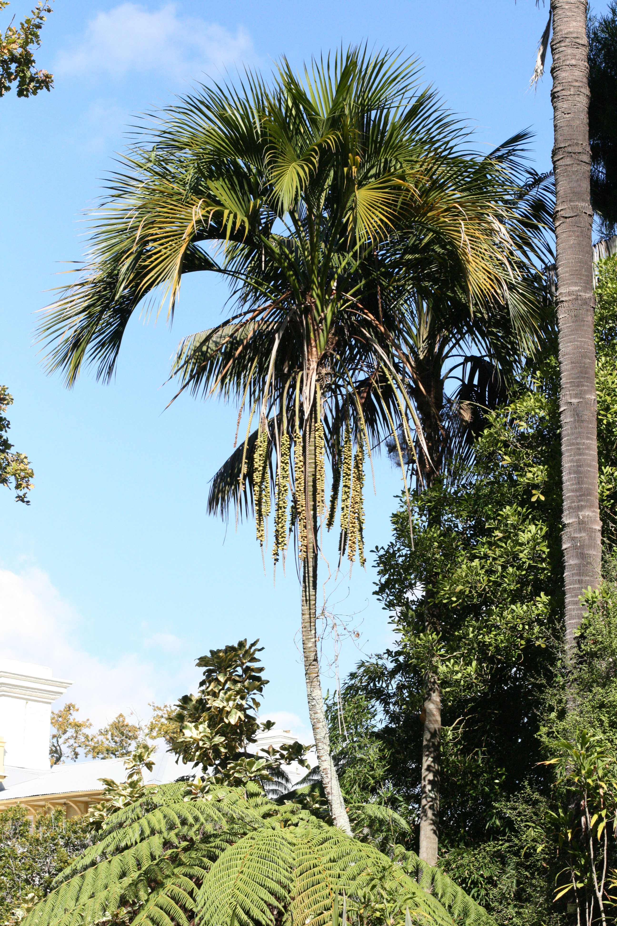 Howea belmoreana a palm endemic to Lord Howe Island, Australia, growing in cultivation at the University of Auckland, New Zealand.